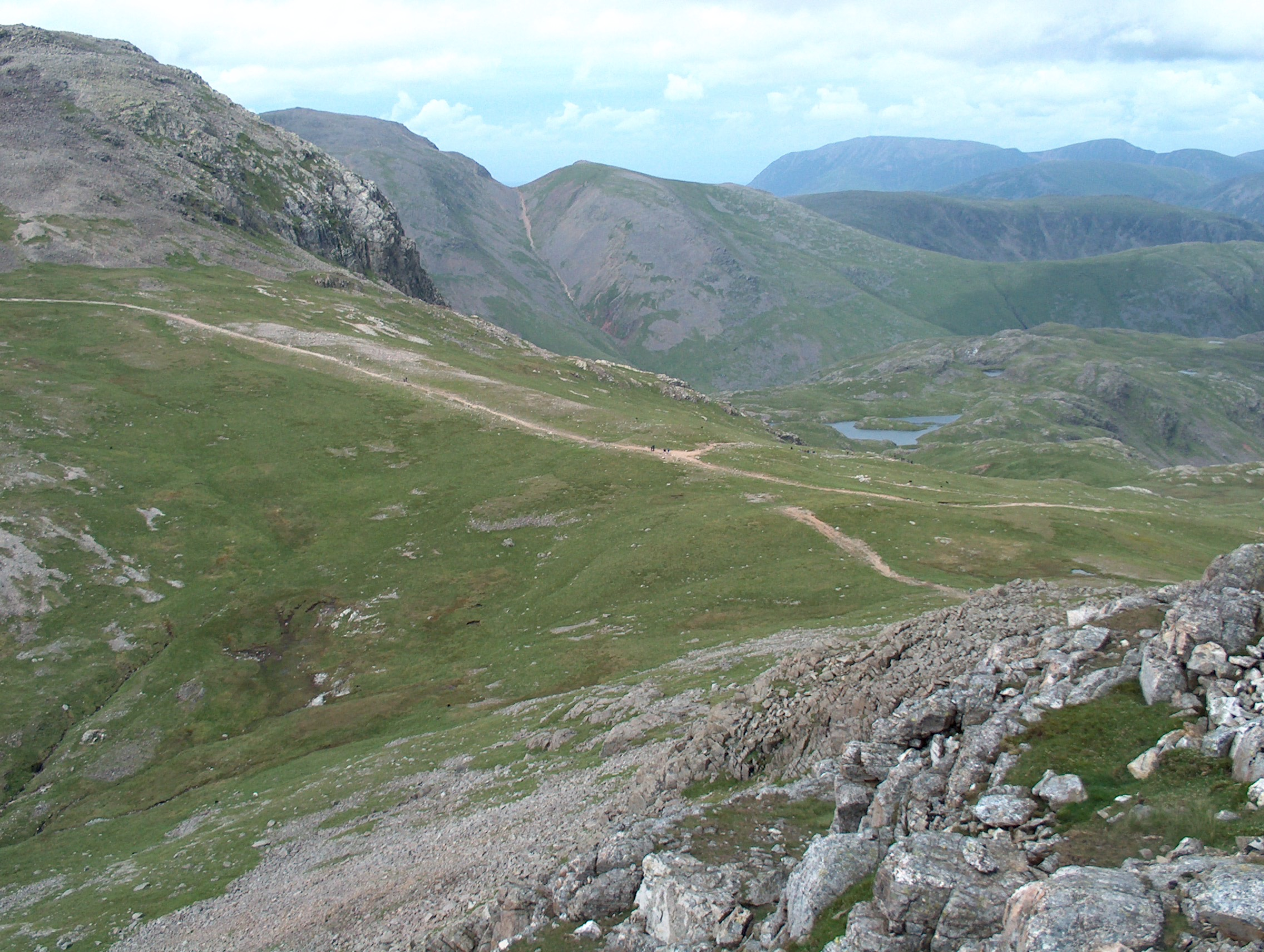 Esk Hause A high-level pass, seen from the lower slopes of Esk Pike.